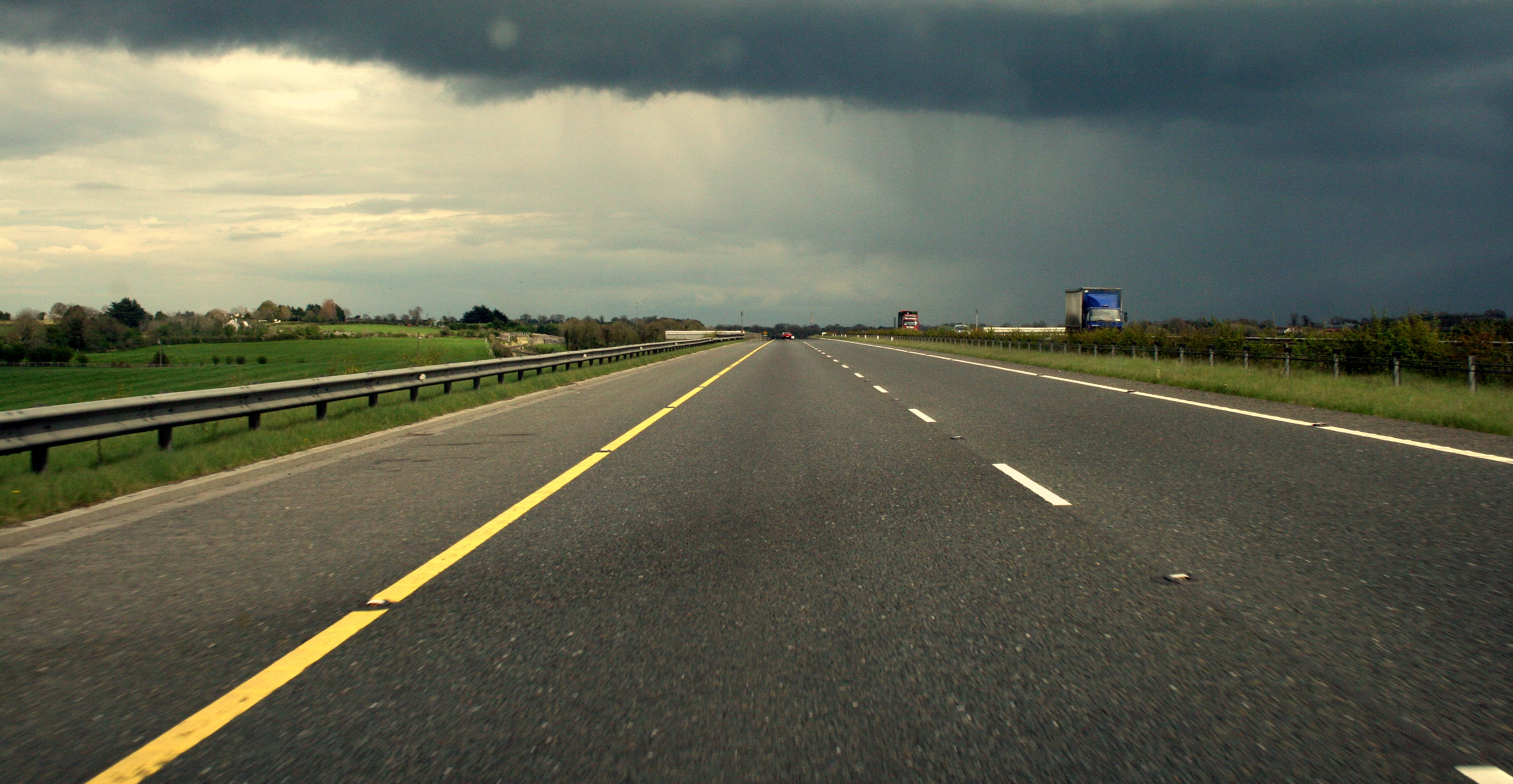 M7 through County Kildare, Ireland. Raised section of the Kildare bypass crossing over the Dublin-Waterford railway line (ahead, north in the photo)